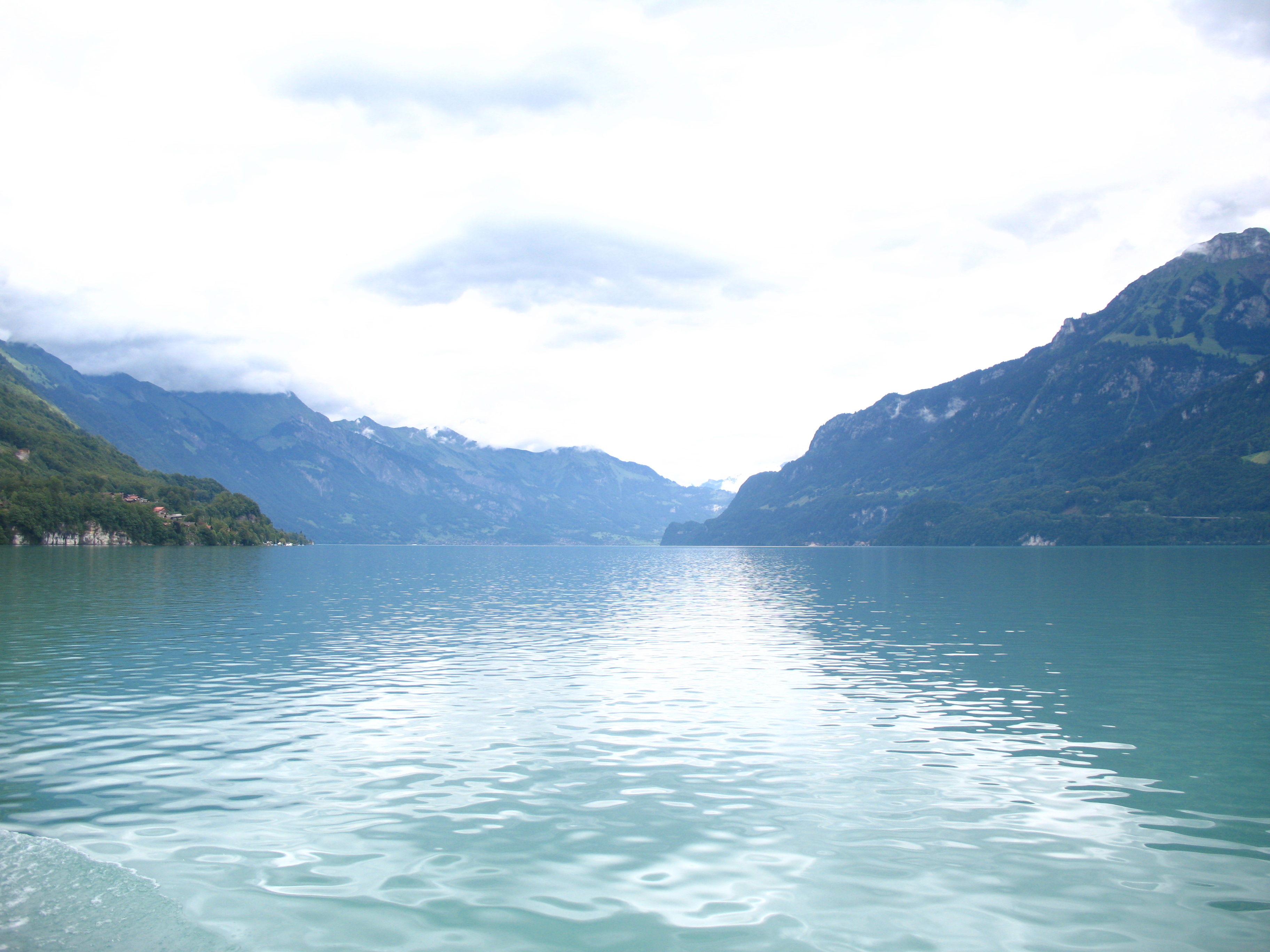 Looking toward Brienz, Lake Brienz, Switzerland